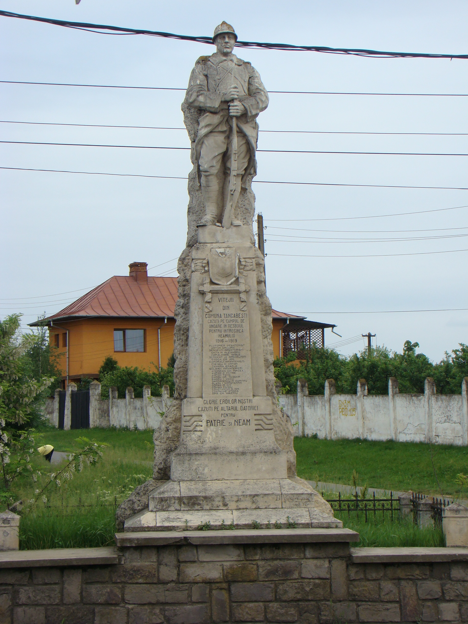 Romanian Soldier Monument Tancabesti